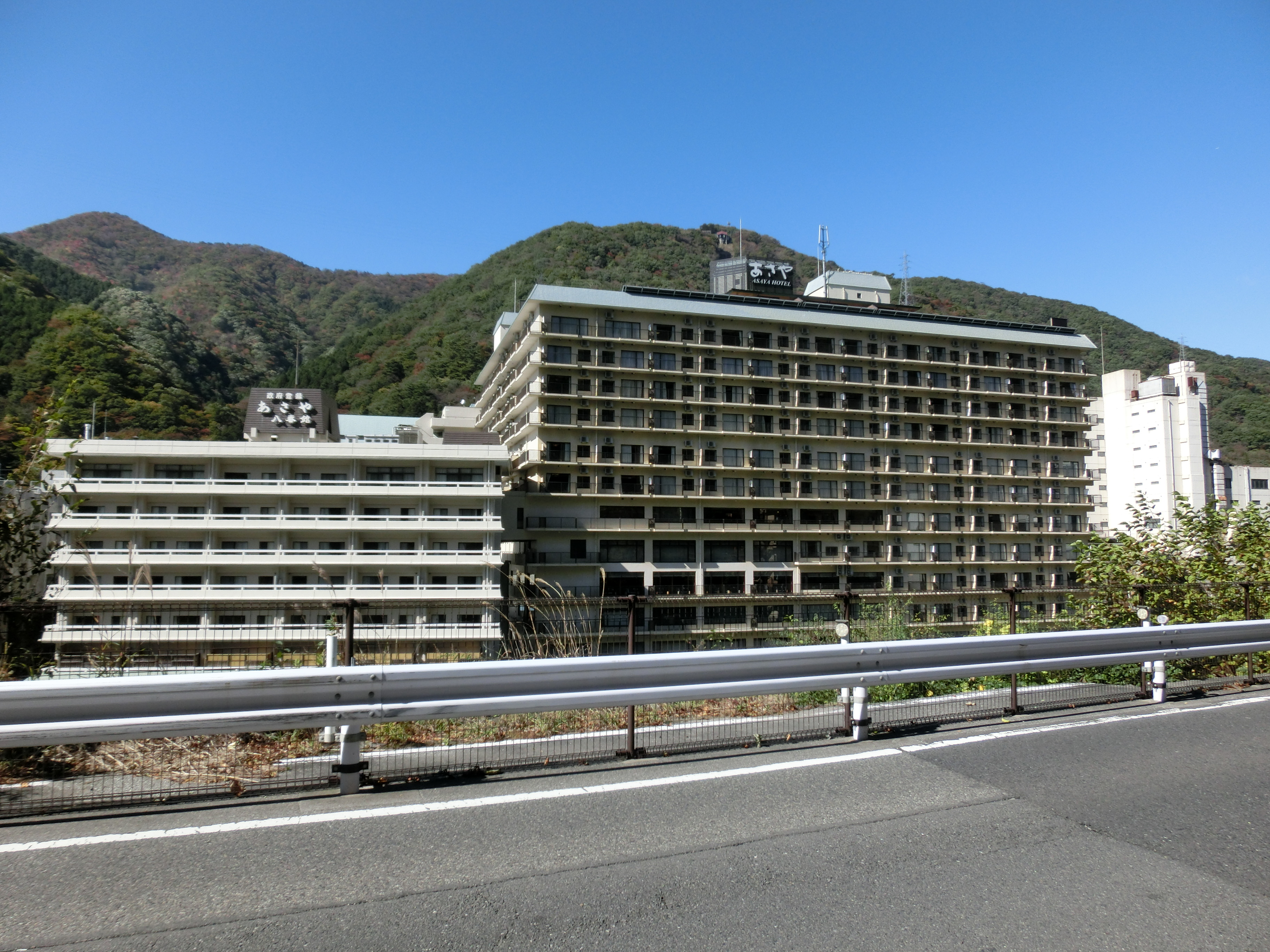 Asaya Hotel